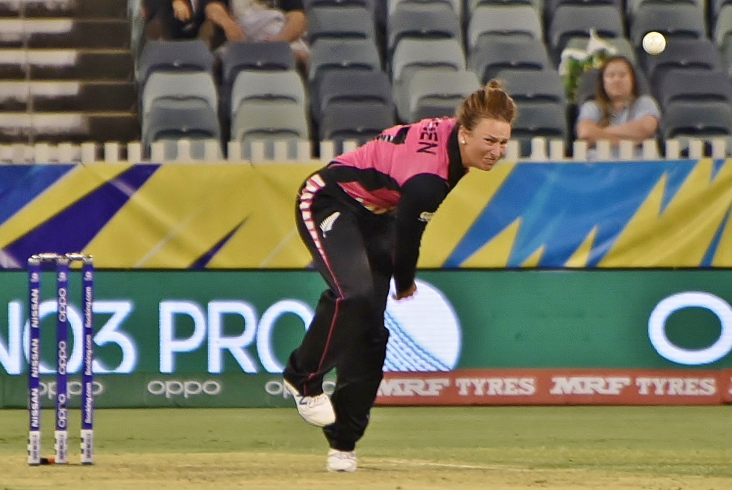 Hayley Jensen bowling for New Zealand in her player of the match-winning performance against Sri Lanka during their 2020 ICC Women's T20 World Cup match at the WACA Ground in Perth, Australia